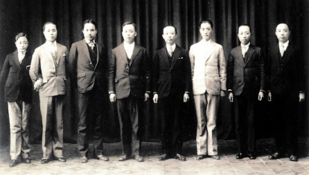 Eight Li brothers of Xiangtan in Beijing, celebrating their parents' 60th birthdays. From left to right (youngest to oldest): Li Jinyang (C.Y. Lee), Jinguang, Jinming, Jinjiong, Jinshu, Jinyao, Jinhui, Jinxi